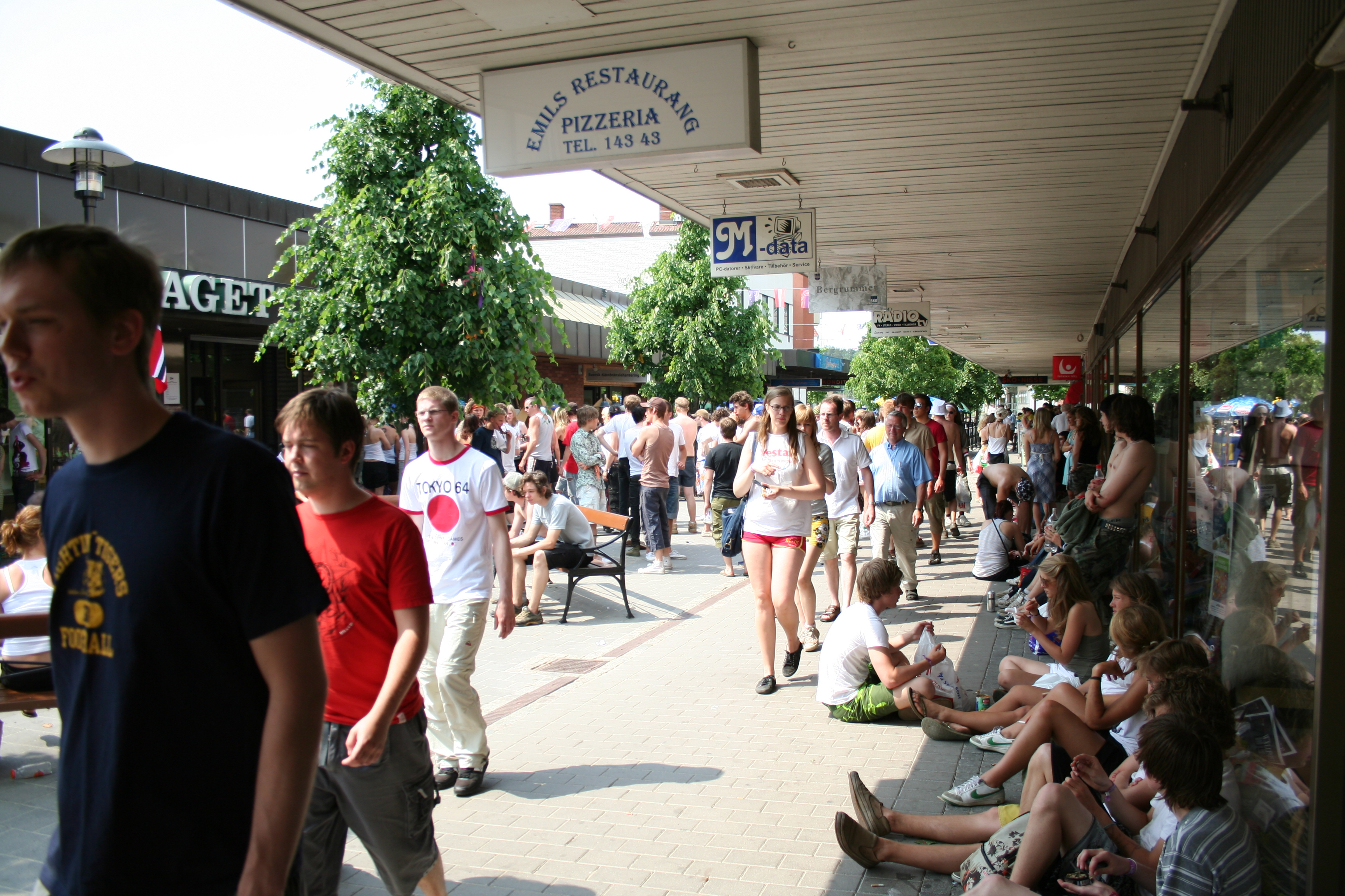 Hultsfred during the festival.